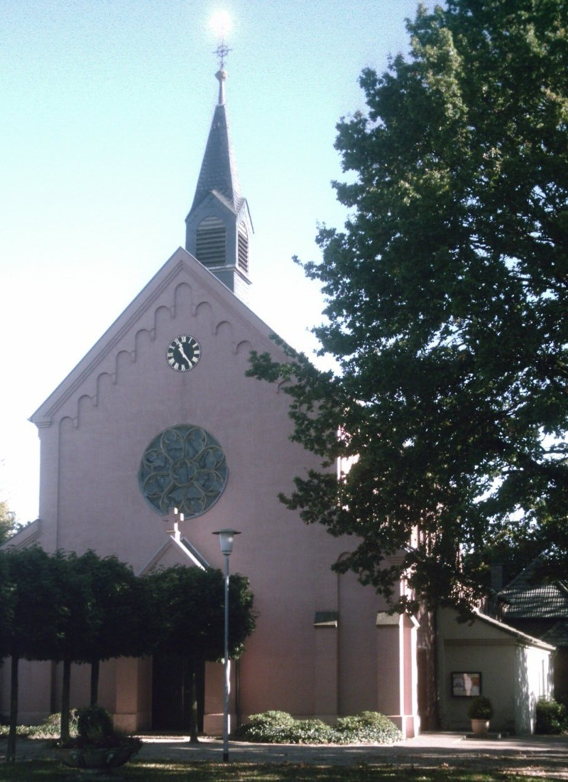 Church in Vinkrath, Grefrath, Germany